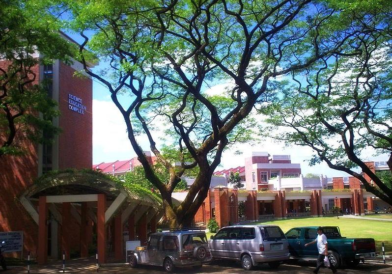 Ateneo Science Education Buildings